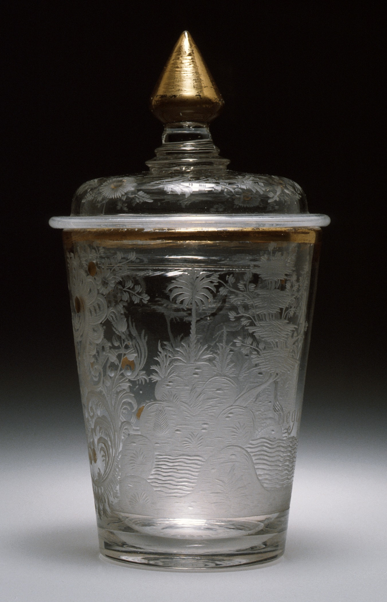 Silesia, circa 1750-1760 Furnishings; Serviceware Glass Gift of Varya and Hans Cohn (M.82.124.41a-b) Decorative Arts and Design Currently on public view: Hammer Building, floor 3